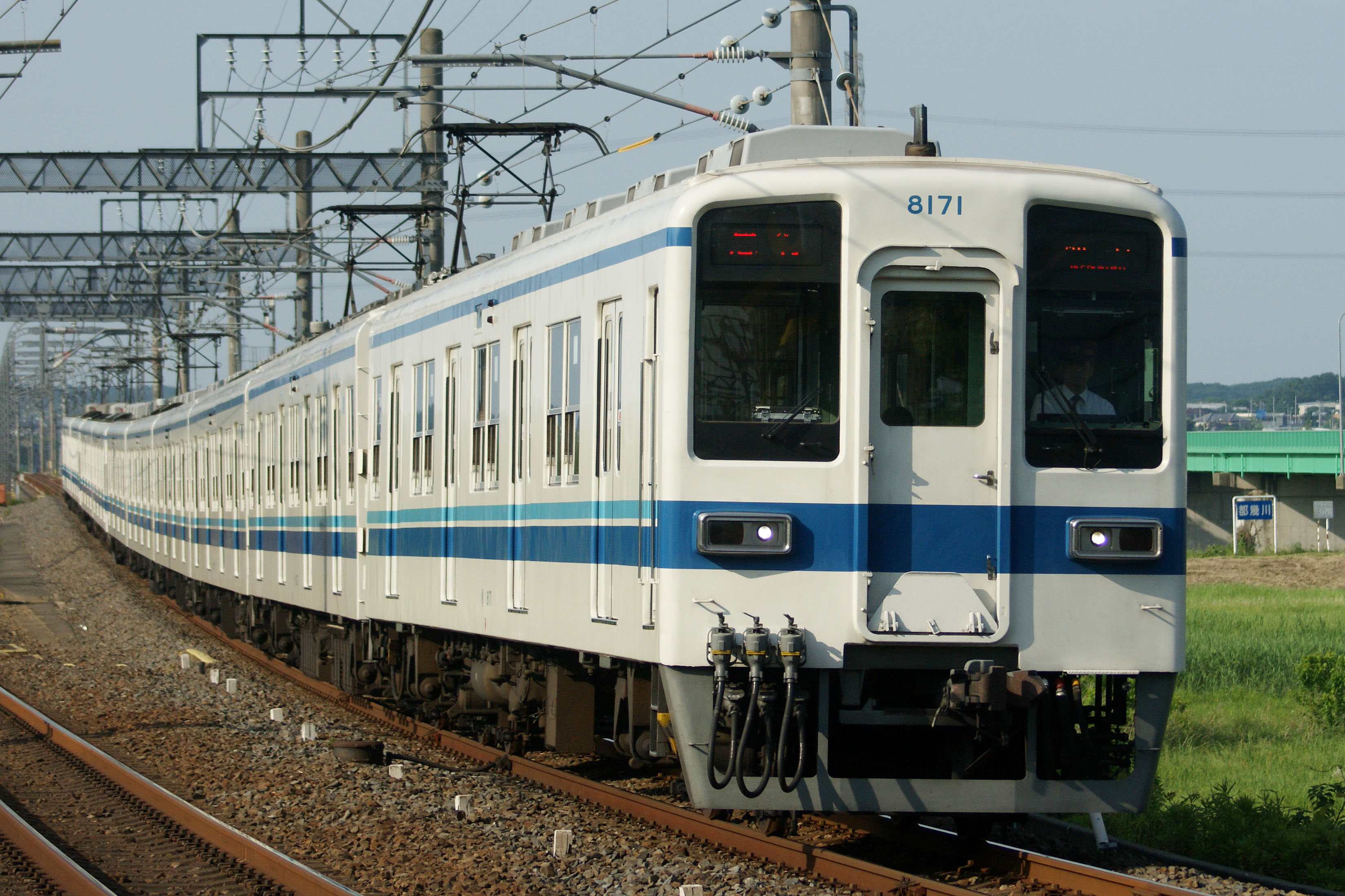 Tobu Railway series 8000 EMU(renewal type), re-renewal type.